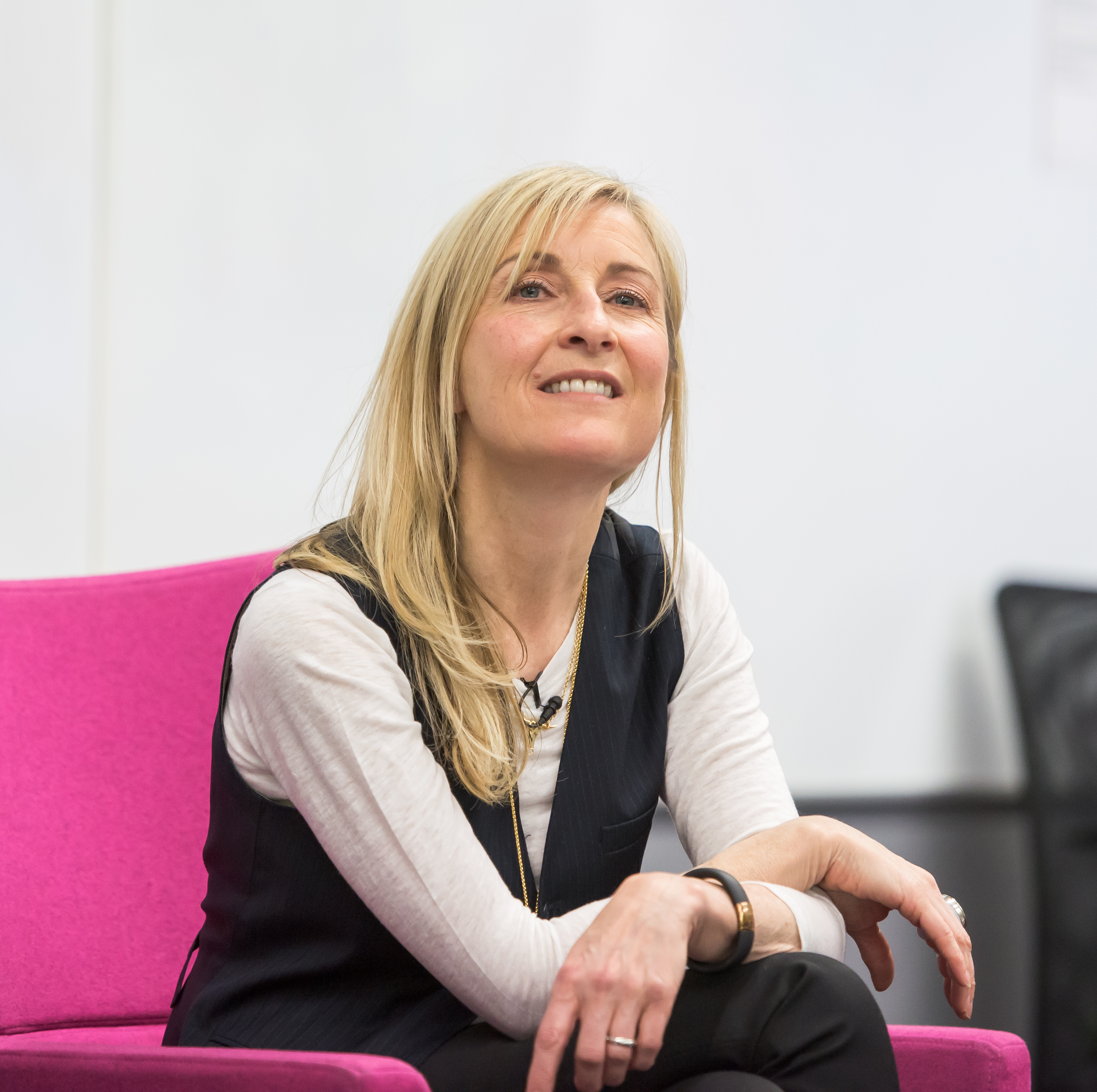 Phillips at the Salford Institute for Dementia, 2015.